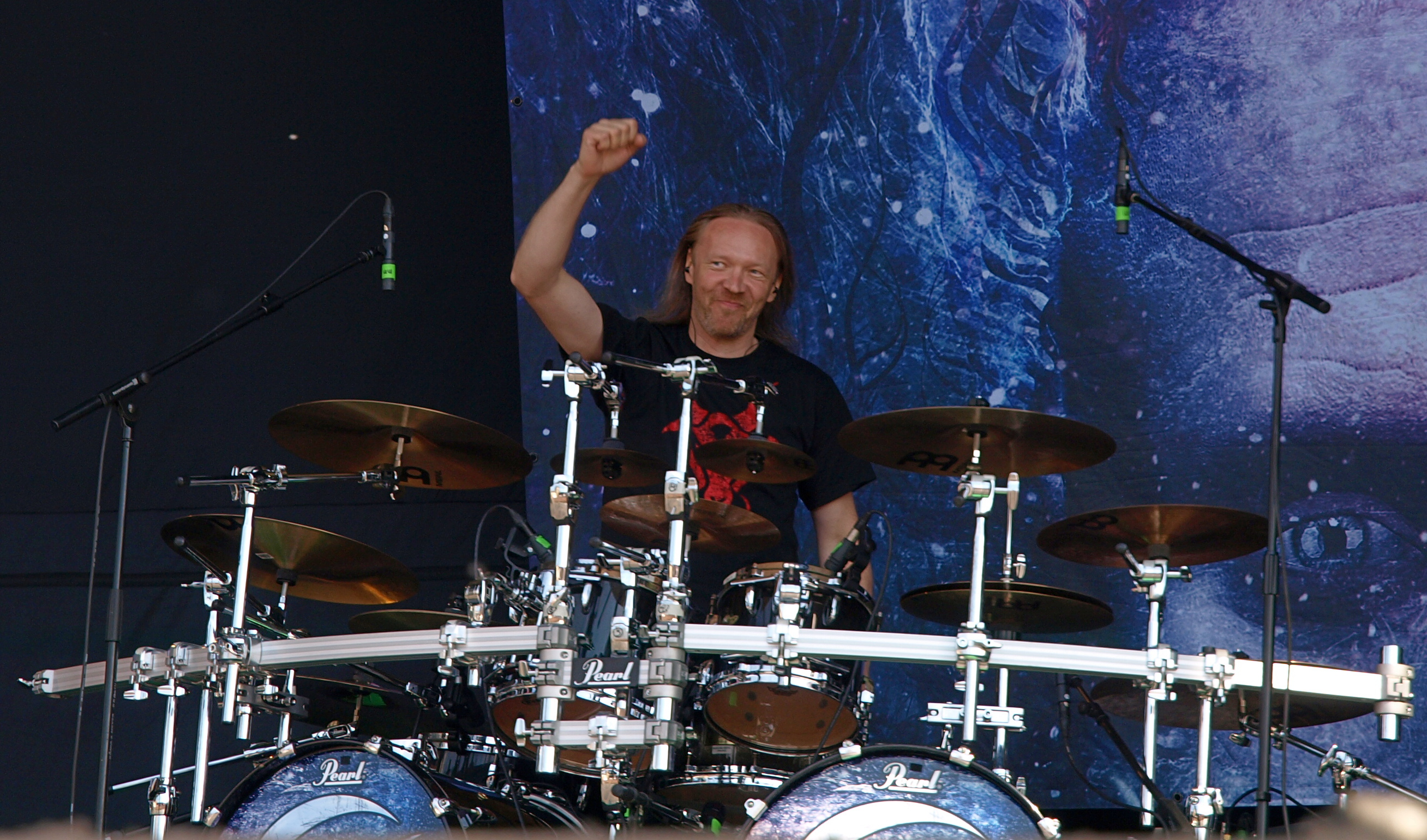 Finnish metal band Wintersun live at Tuska Open Air 2013